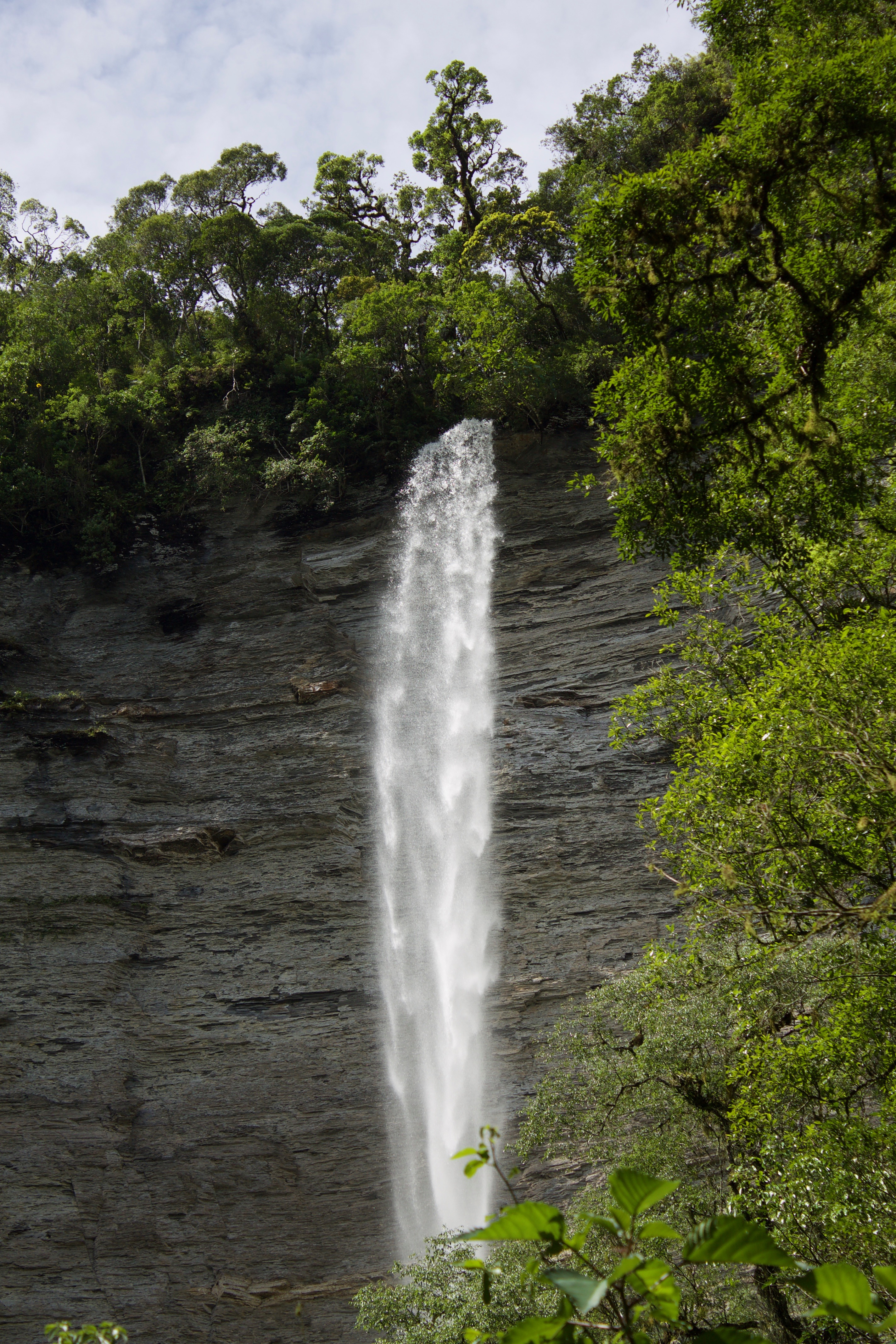 Waterfall (with ca. 85 m height) in the municipality of Leoberto Leal, Santa Catarina, Brazil.